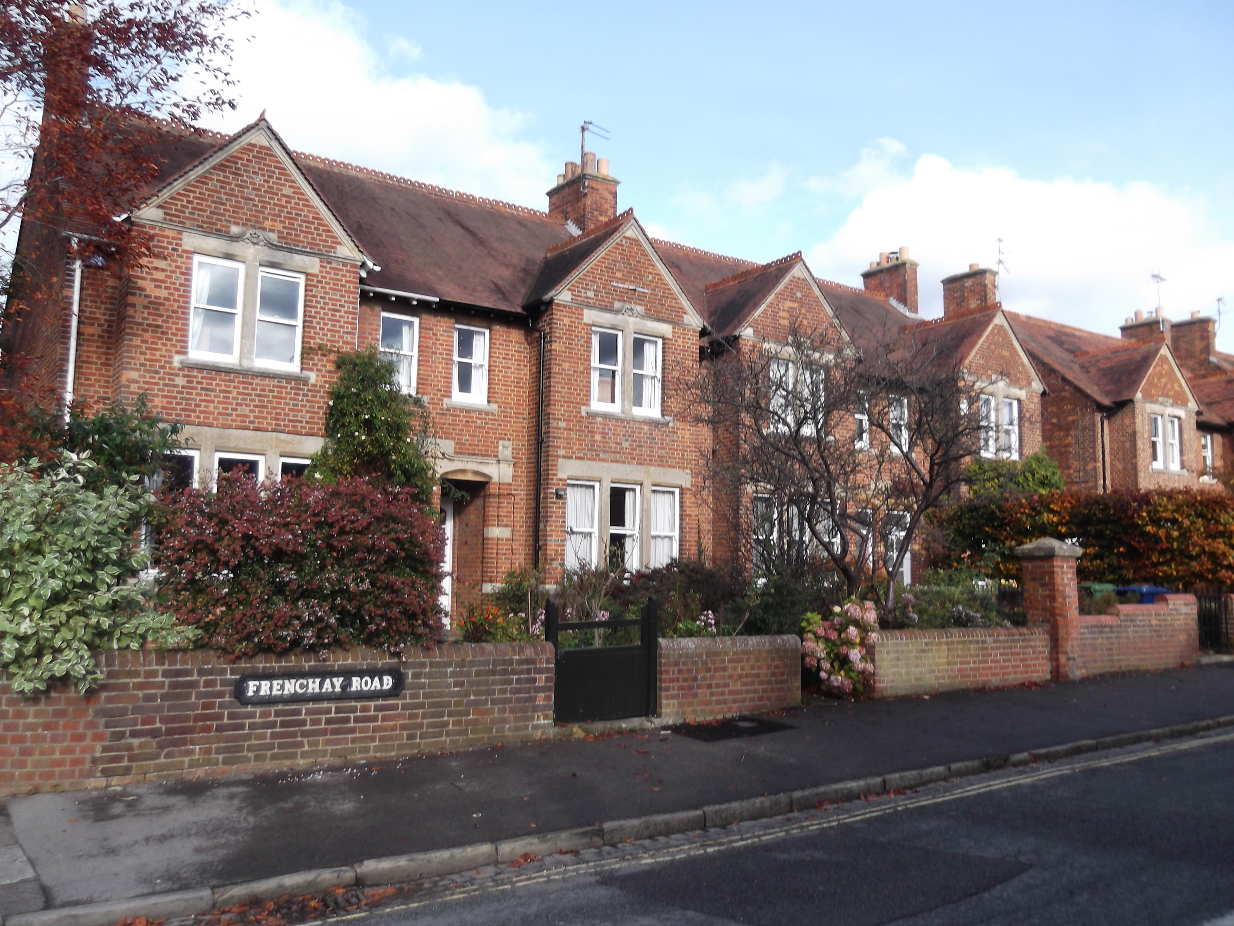 Street in north Oxford, England.